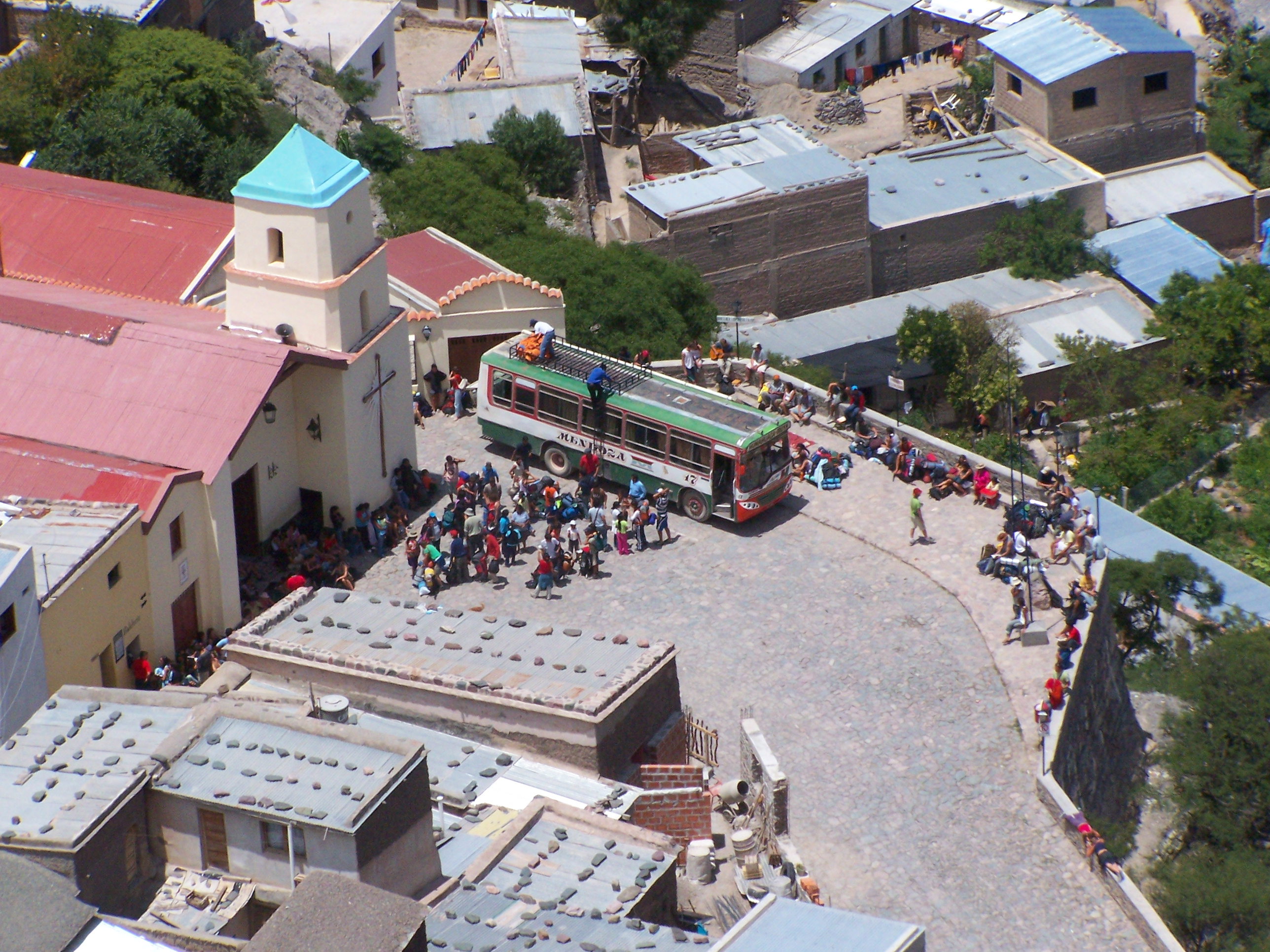 Intercity bus (#17) with unknown chassis in Iruya, Salta Province, Argentina. Probably Mendoza operator.